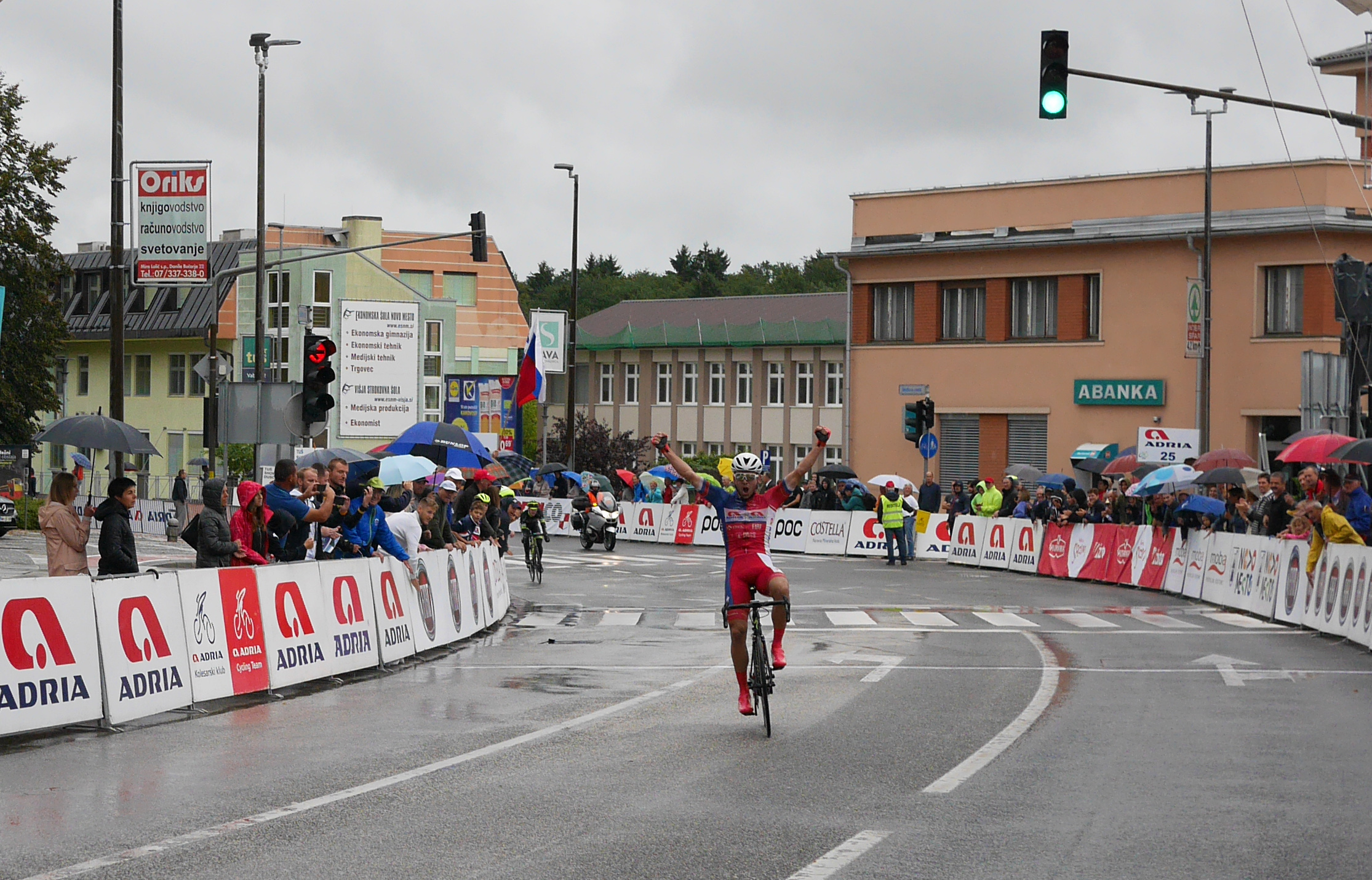 Dušan Rajović winning race Croatia-Slovenia 2018, Novo mesto, Slovenia